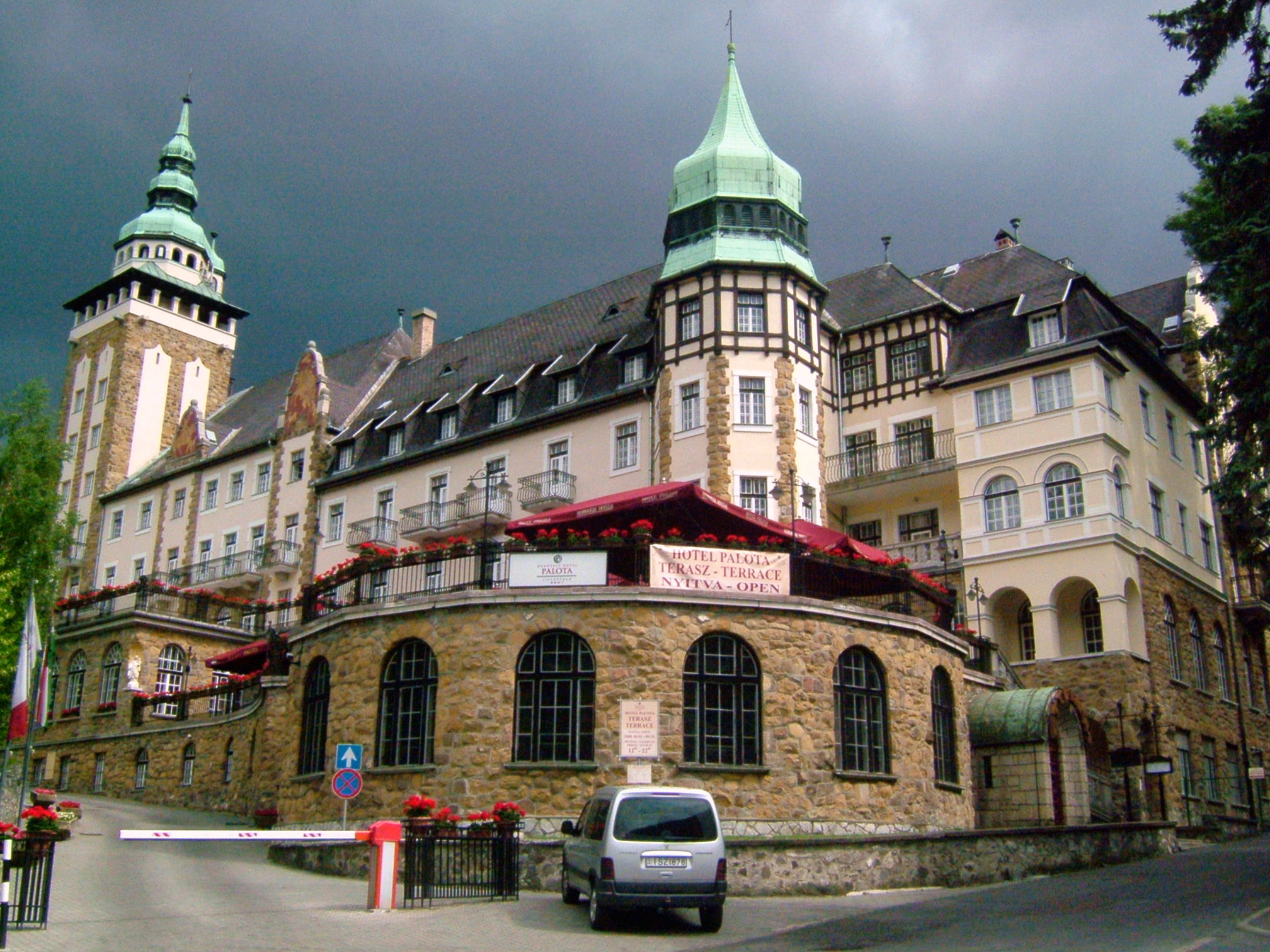 The northern side of the Palota hotel in Lillafüred, Hungary.